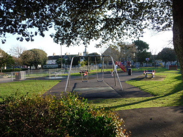 Portland: Easton Square gardens A small square in the centre of Easton houses this small recreational area, including a kids' playpark and, visible centre distance, clock tower.